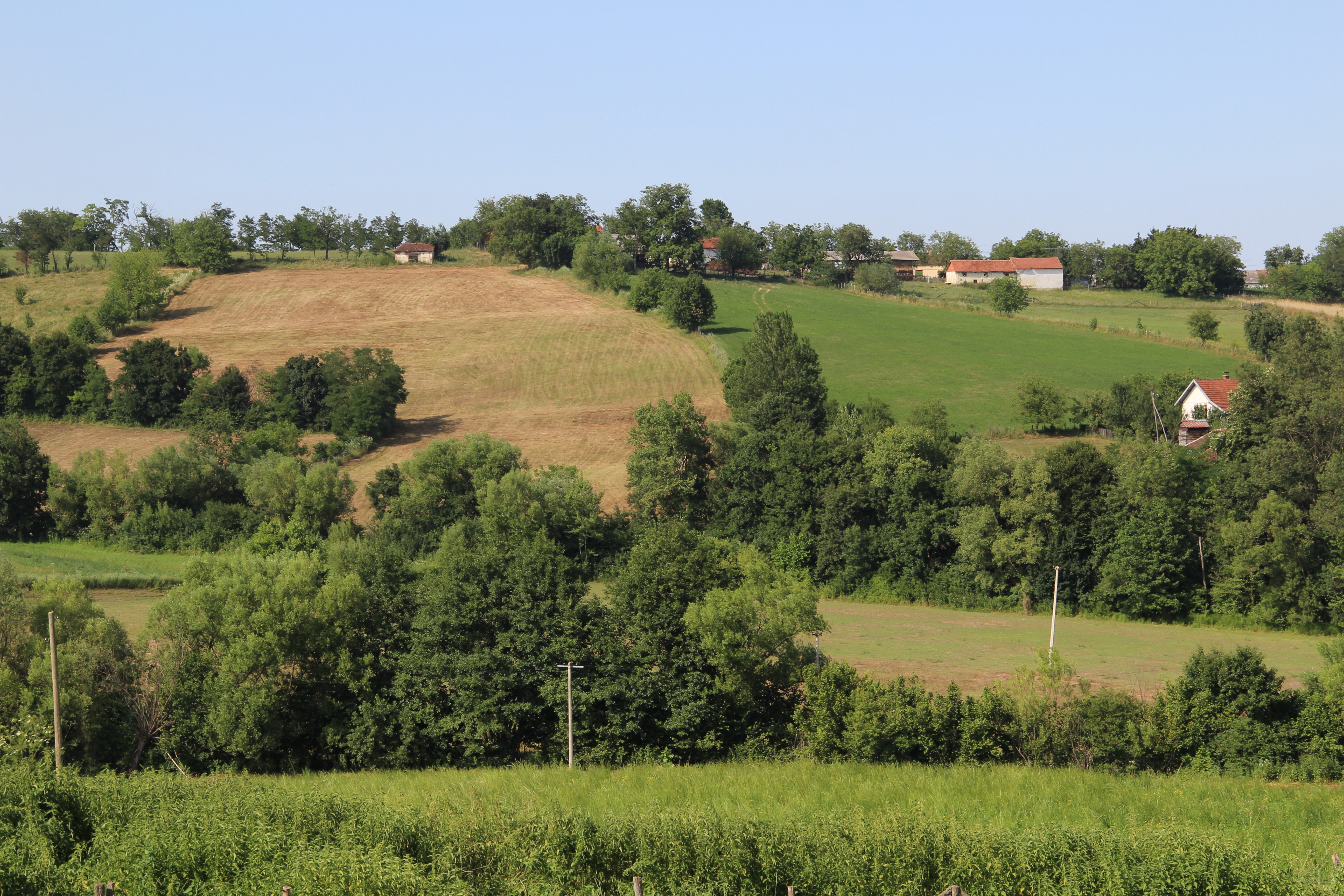 Mrčić Village - Municipality of Valjevo - Western Serbia - Panorama 22